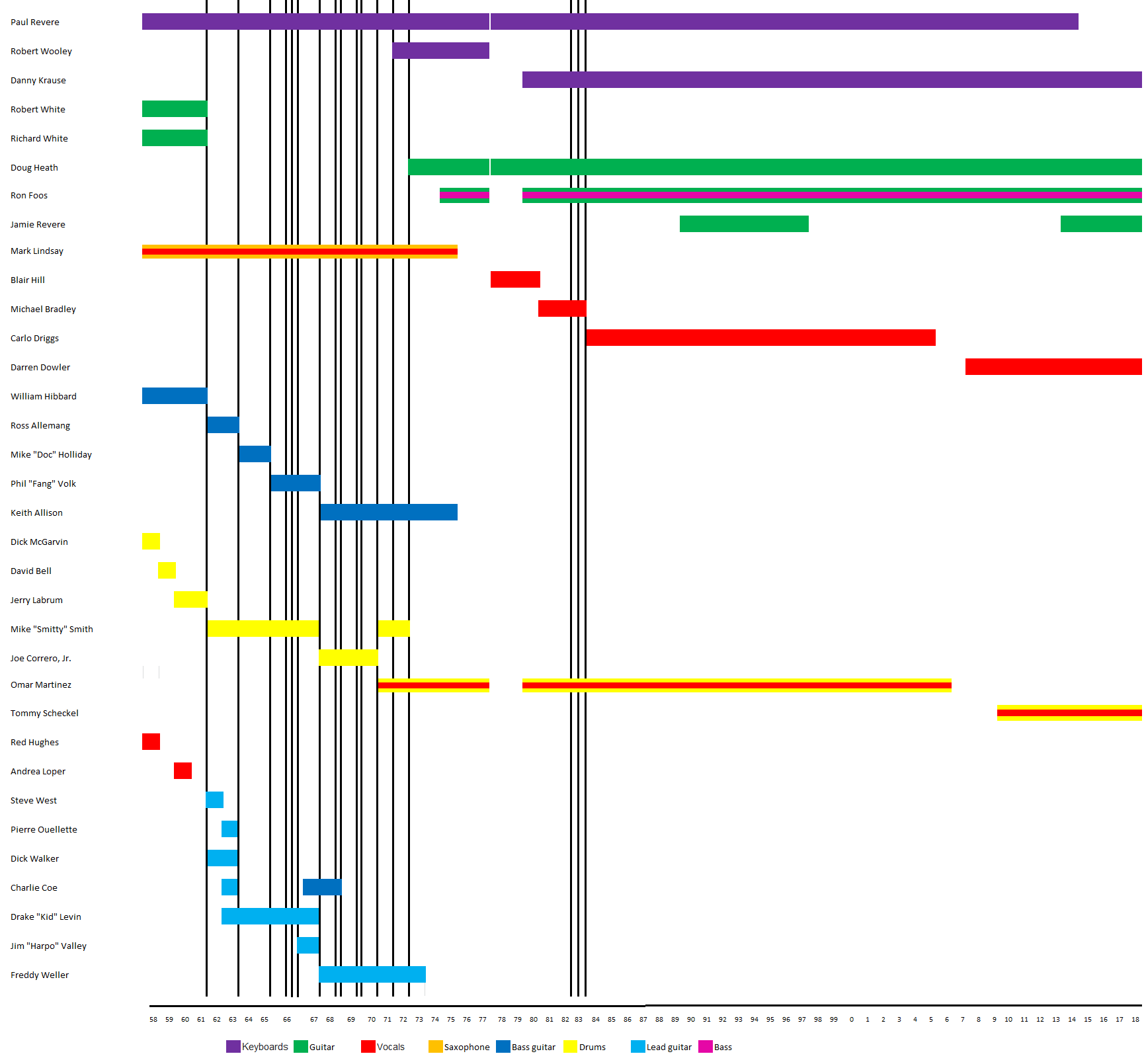 Timeline of band Paul Revere & the Raiders